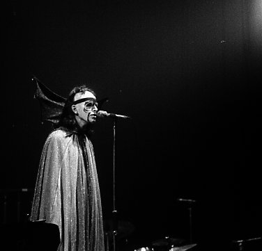 "The watcher of the skies" Genesis, Massey Hall, Toronto, May 2, 1974